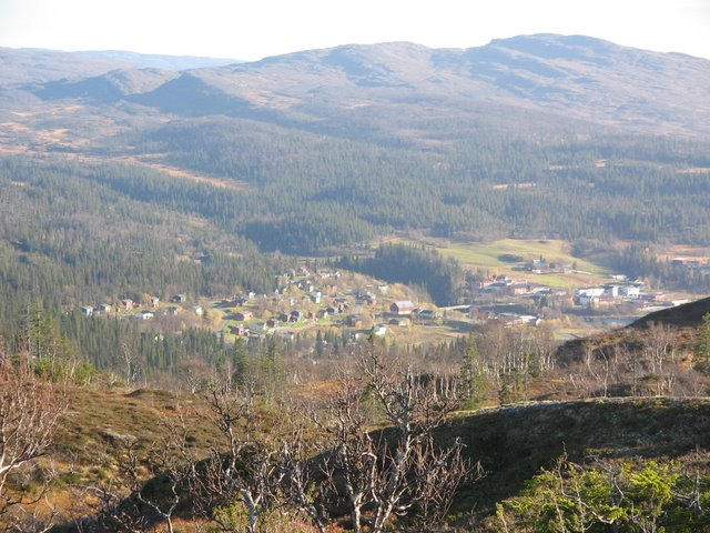 Royrvik, a village in Norway, the administrative center of the Royrvik municipality